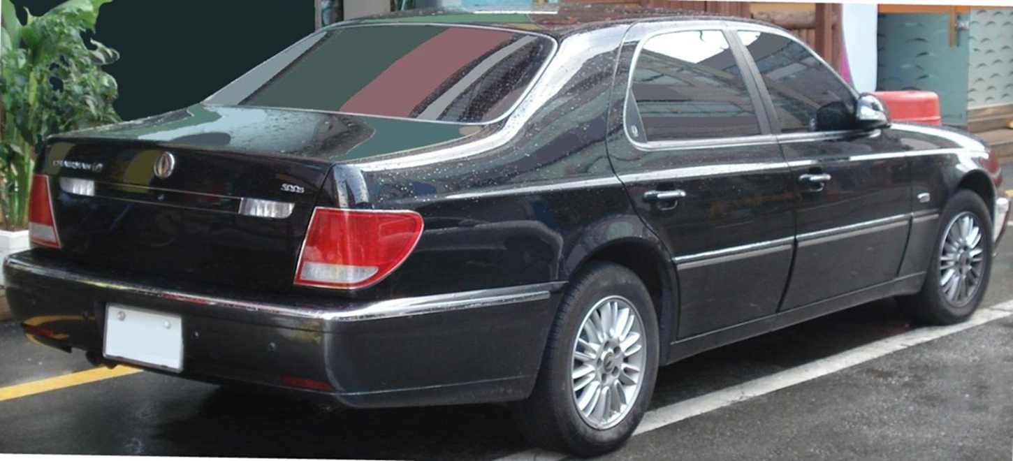 SsangYong Chairman H